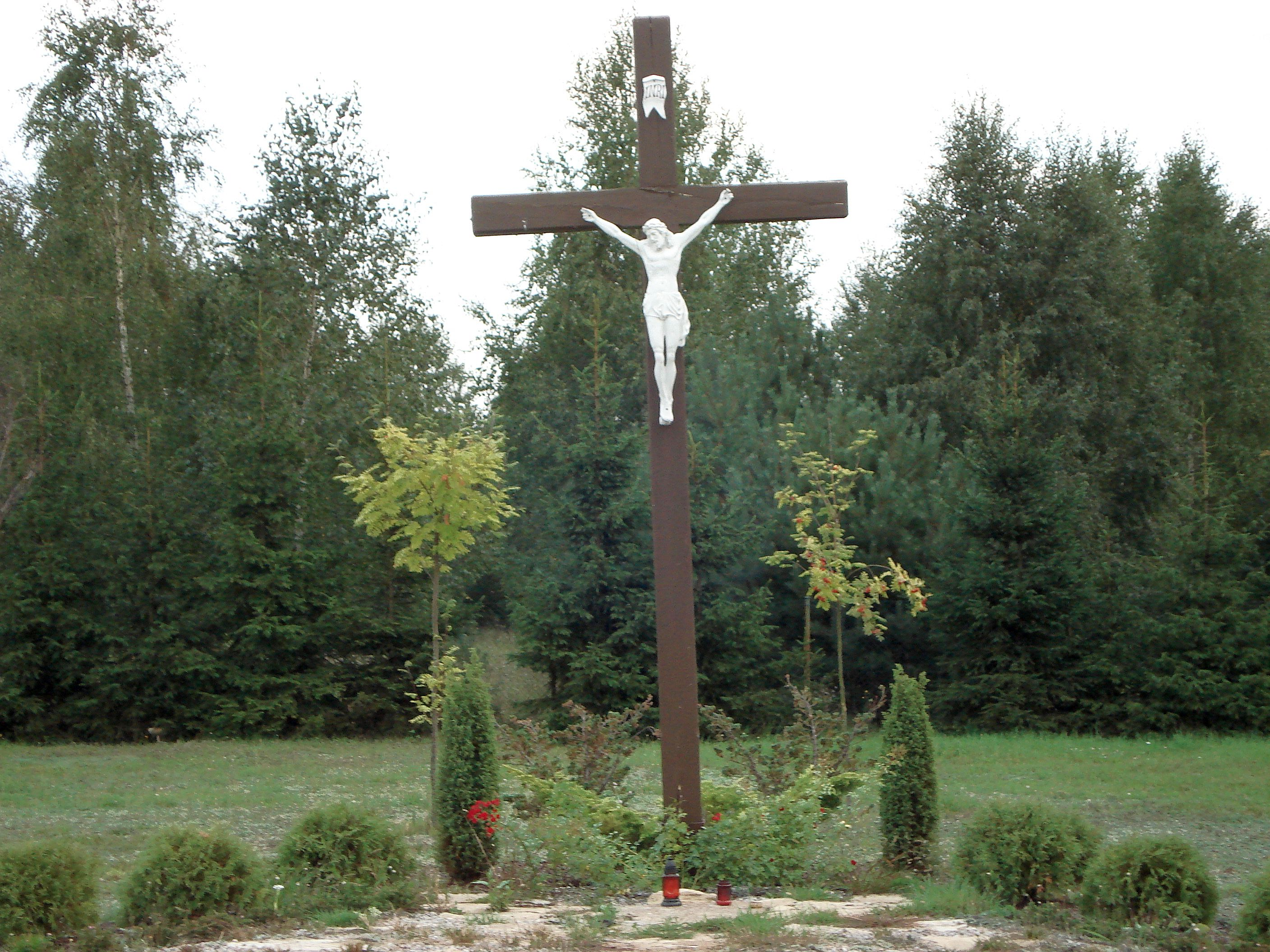 The Calvary in the cemetery of Our Lady of Consolation Parish in Poznań